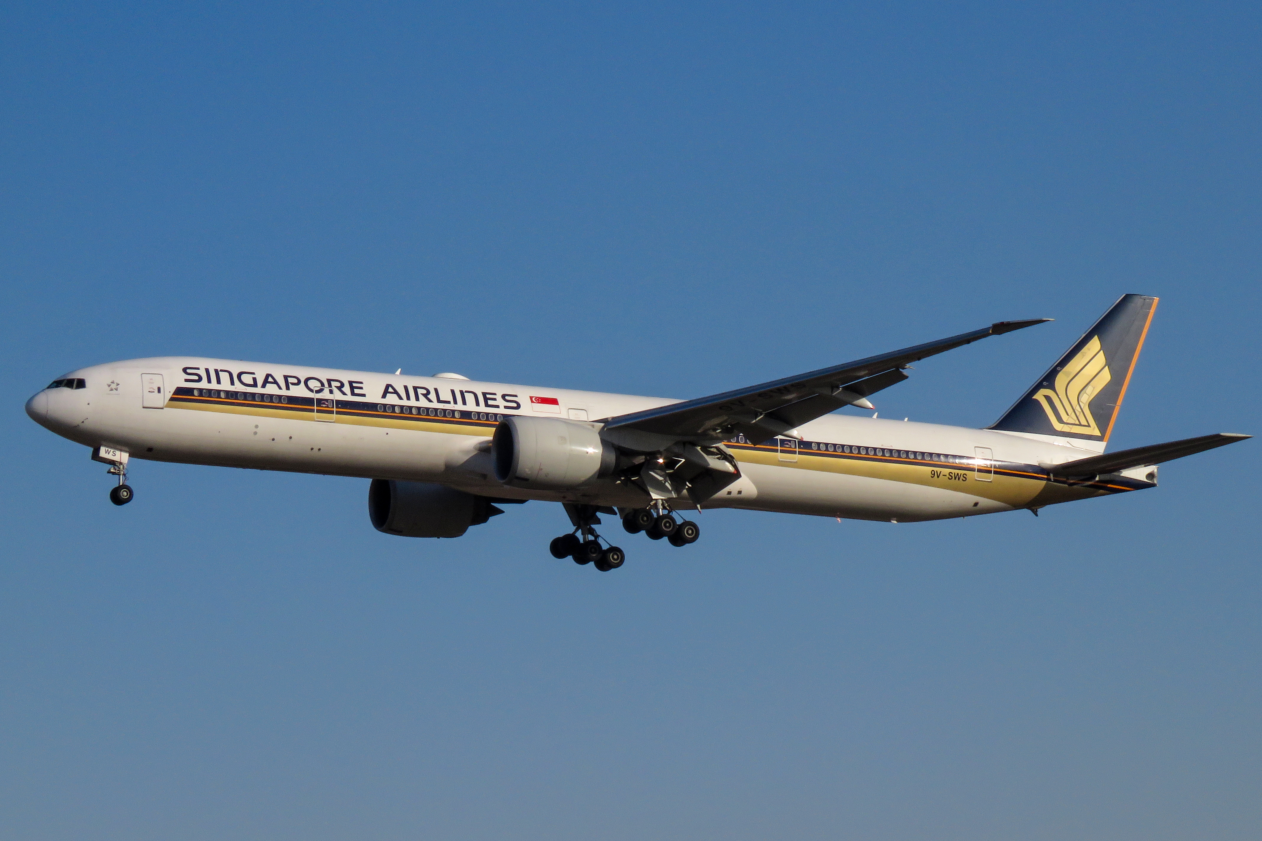 Singapore 802 from Singapore, having just switched from A380 to B77W this December. But PEK still has SQ's "Book the Cook" service for first and business class passengers.